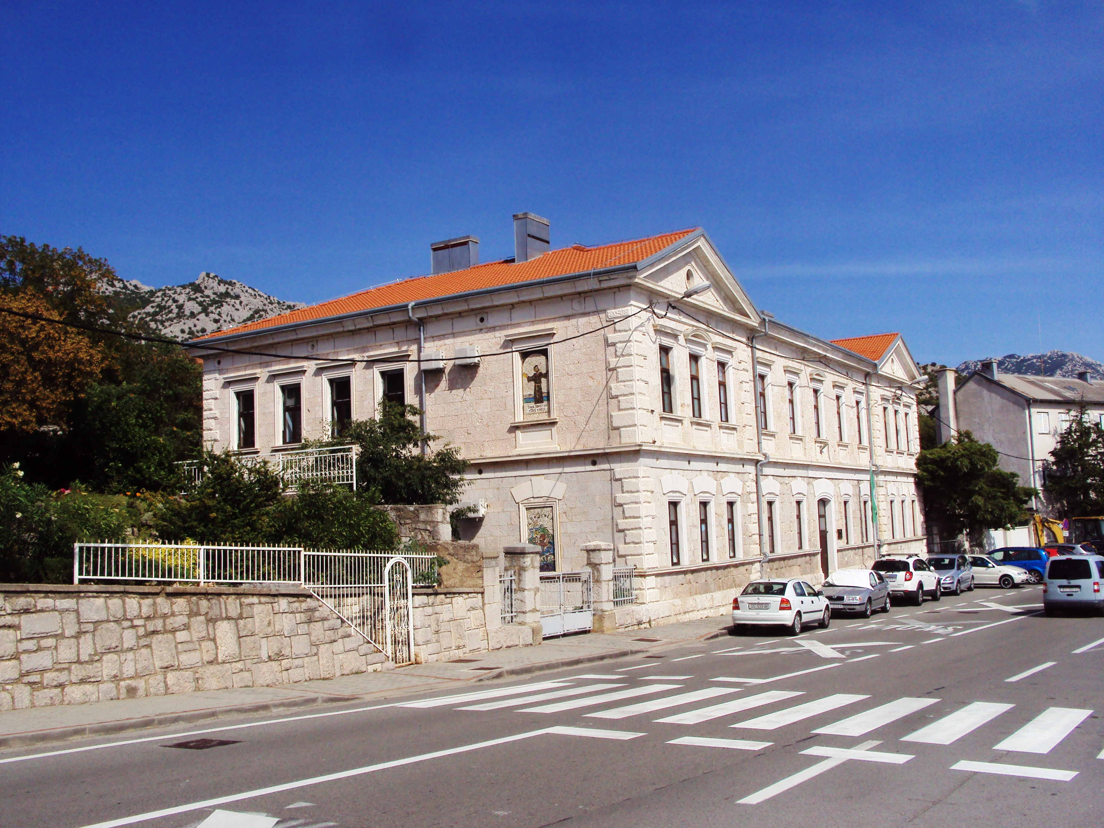 A school in Karlobag, Croatia